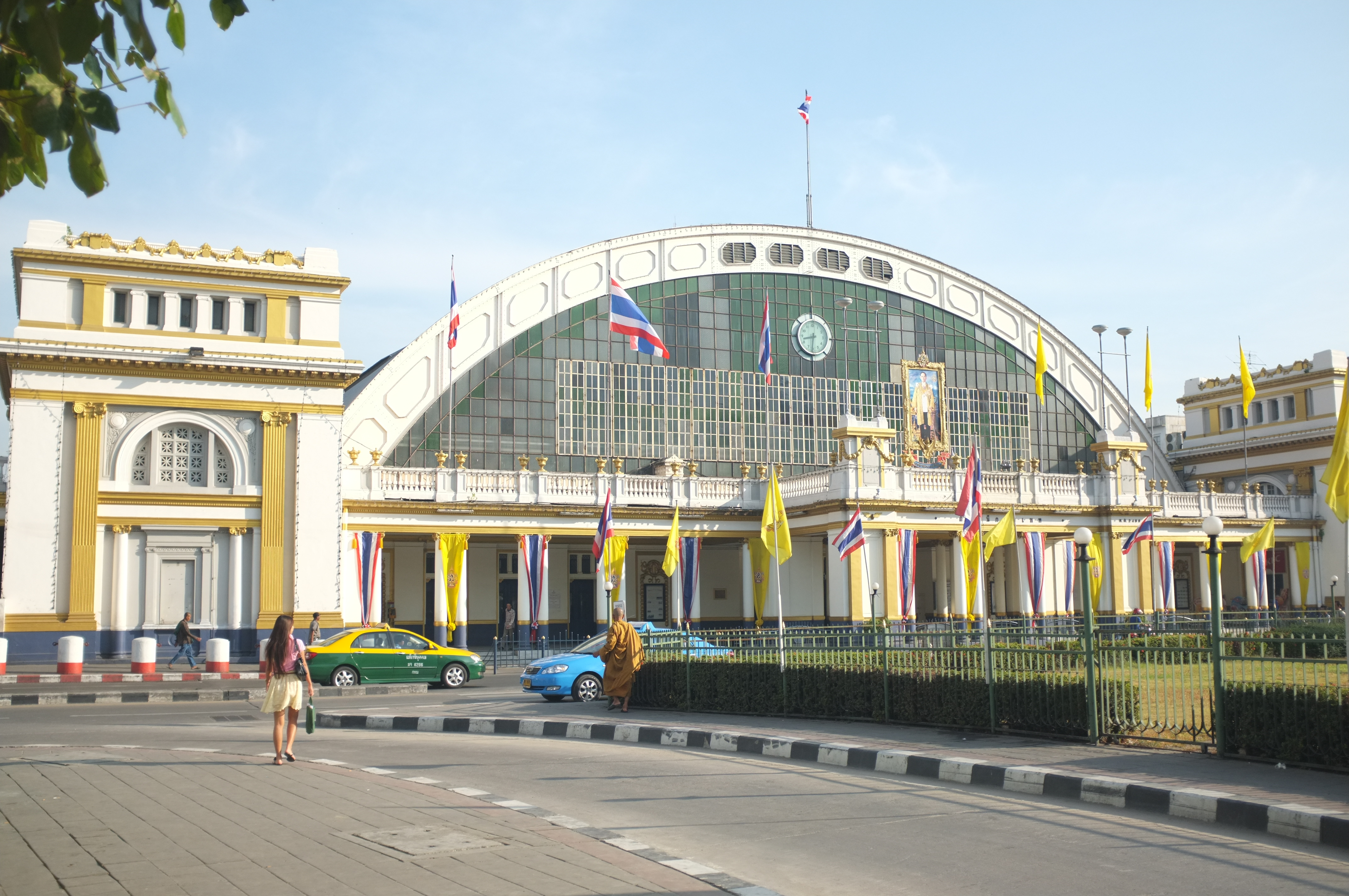 Front of Hua Lamphong train station in Bangkok, Thailand